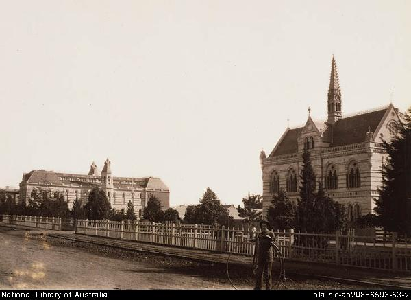 Description: Adelaide University from North Terrace looking WNW. (Foreground: Mitchell Building of the University of Adelaide. Background: Institute Building.) Building was called the University Building until 1961 when it was renamed the Mitchell Building after Sir William Mitchell (1861–1962), Professor of English Language, Literature, Mental and Moral Philosophy at the University of Adelaide from 1894–1922, Vice-Chancellor 1916–1942 and Chancellor 1942–1948.